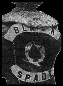 Colors